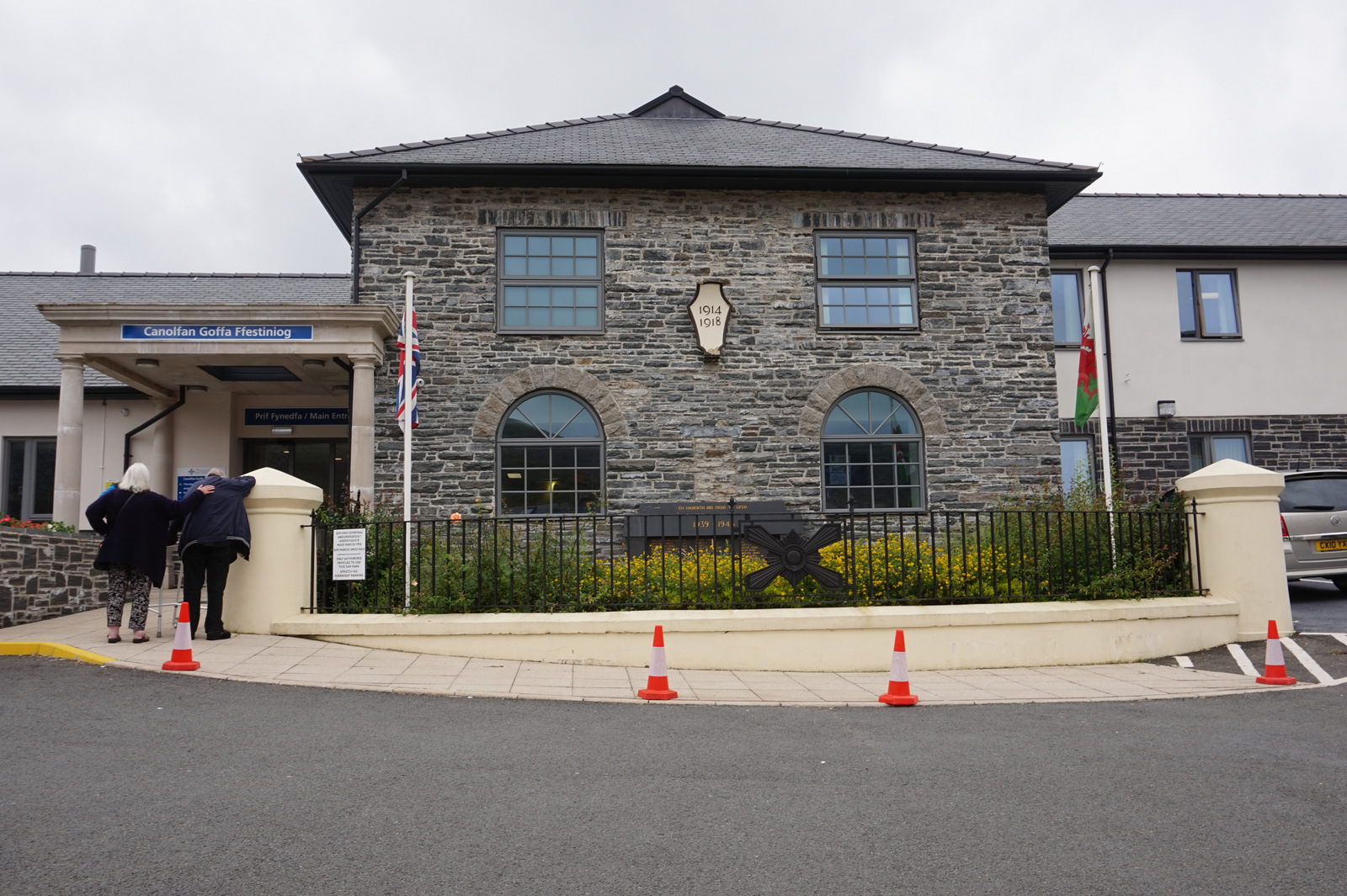 Ffestiniog WW1 Memorial Hospital, Blaenau Ffestiniog